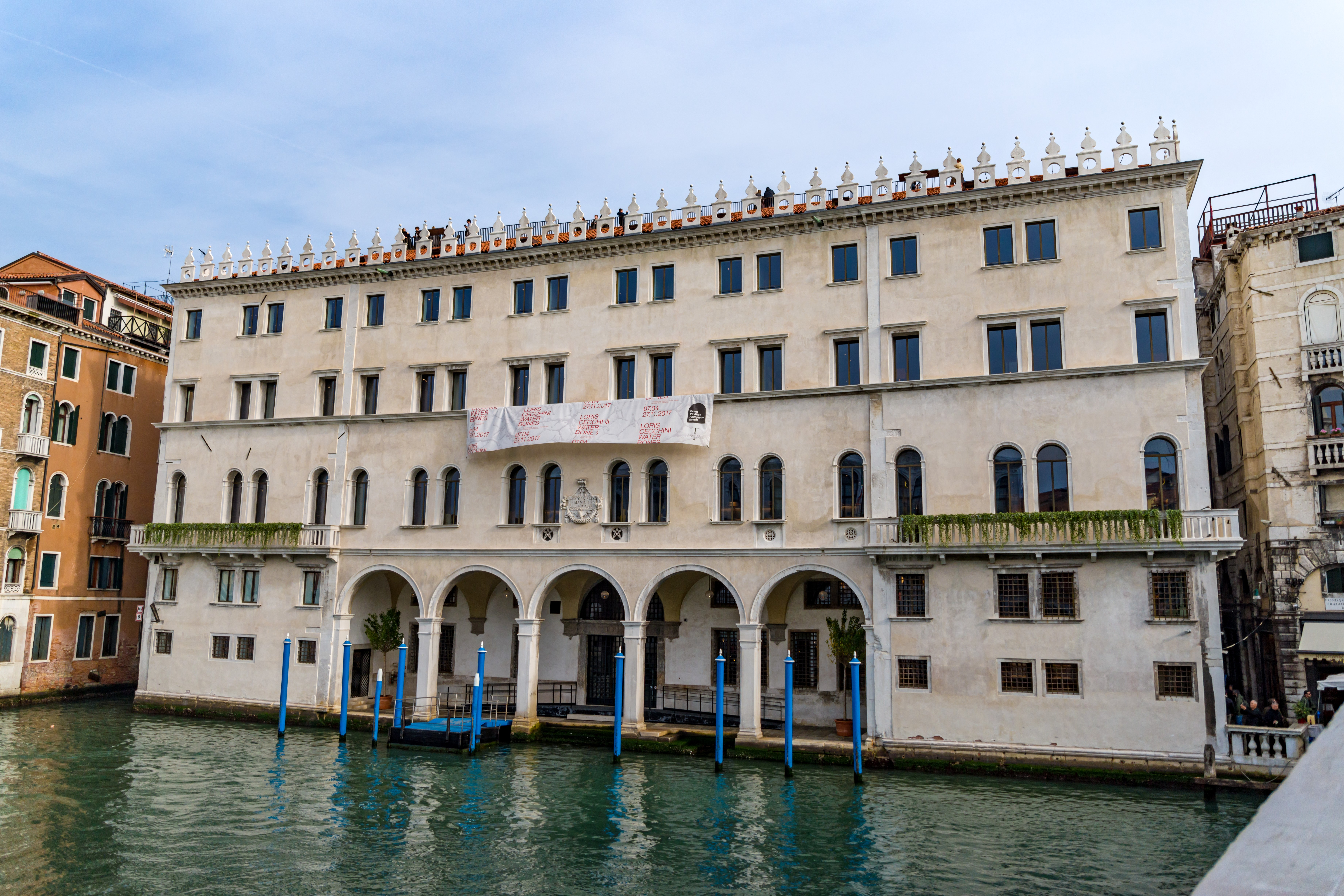 A stroll through Venice